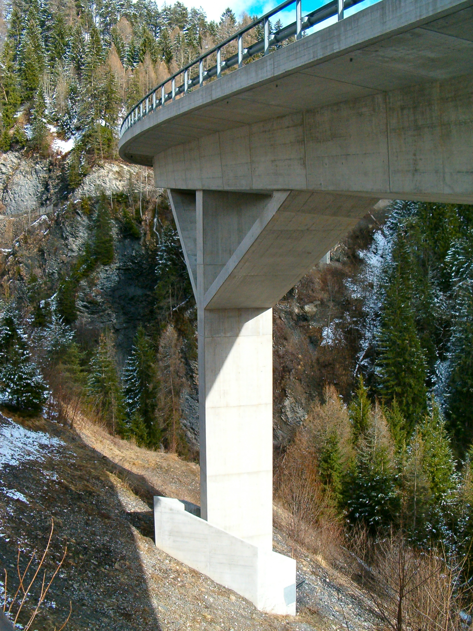 Pillar 1 Castielertobel-Bridge